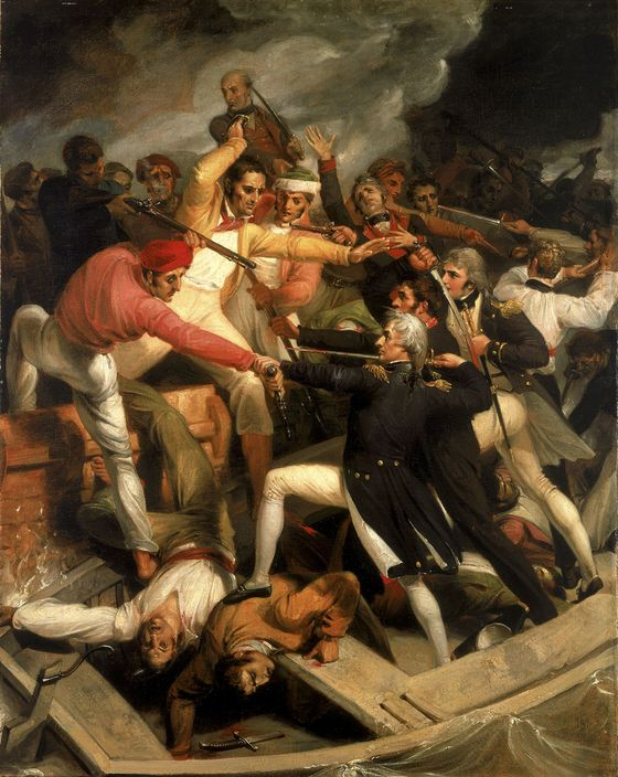 Nelson in conflict with a Spanish launch at Cadiz (1797).